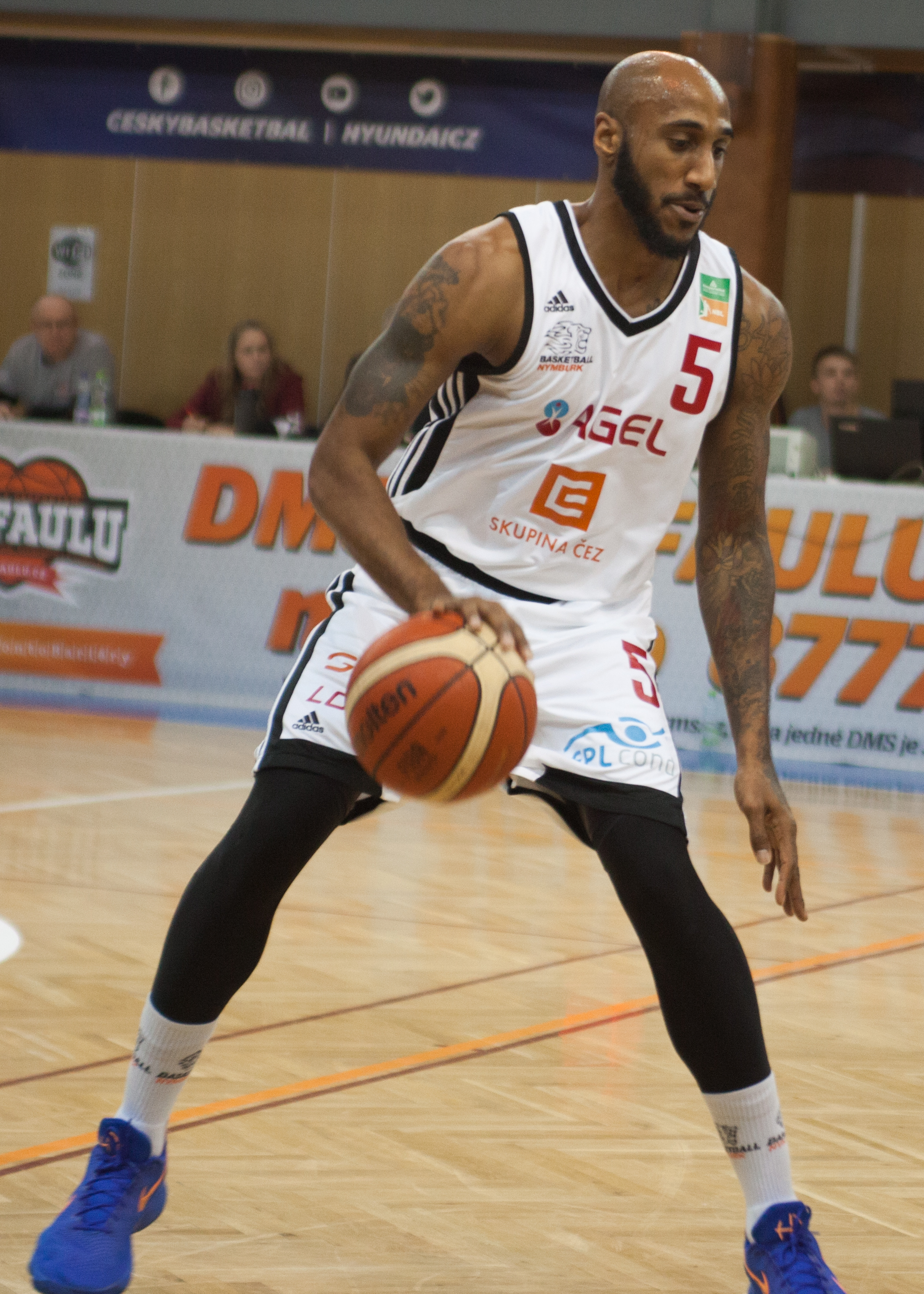 Final match of Czech basketball cup Hyundai Final4 between clubs BK Opava-ČEZ Basketball Nymburk (Nový Jičín, 10 February 2019)